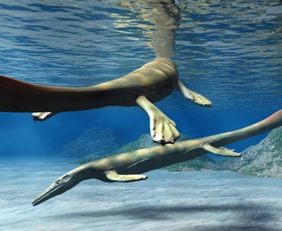 Eonatator sternbergi, a mosasaur from the Late Cretaceous of Kansas. Digital.